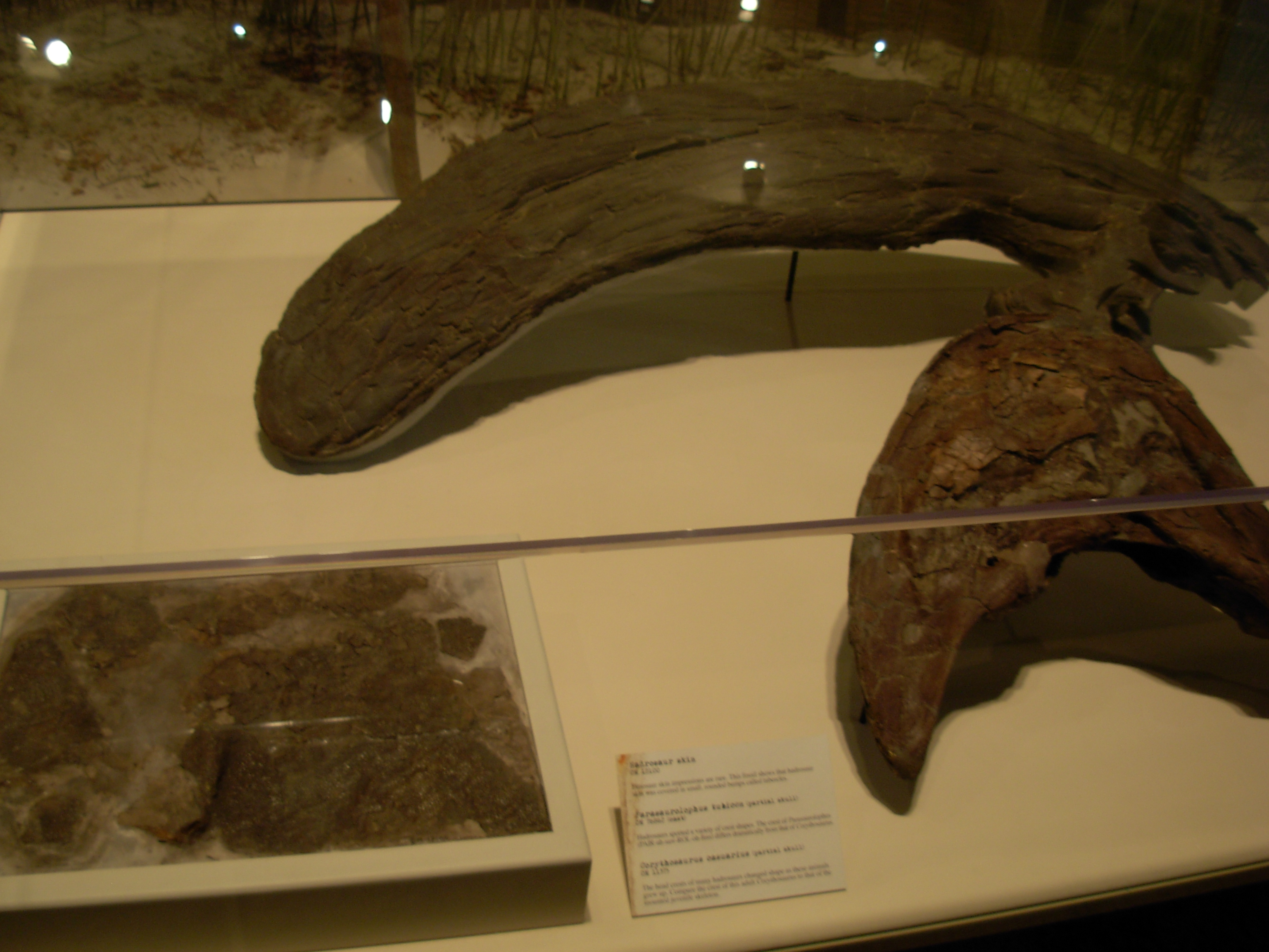 Hadrosaur skin and Parasaurolophus tubicen and Corythosaurus crests.